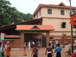 Kadampuzha temple photo